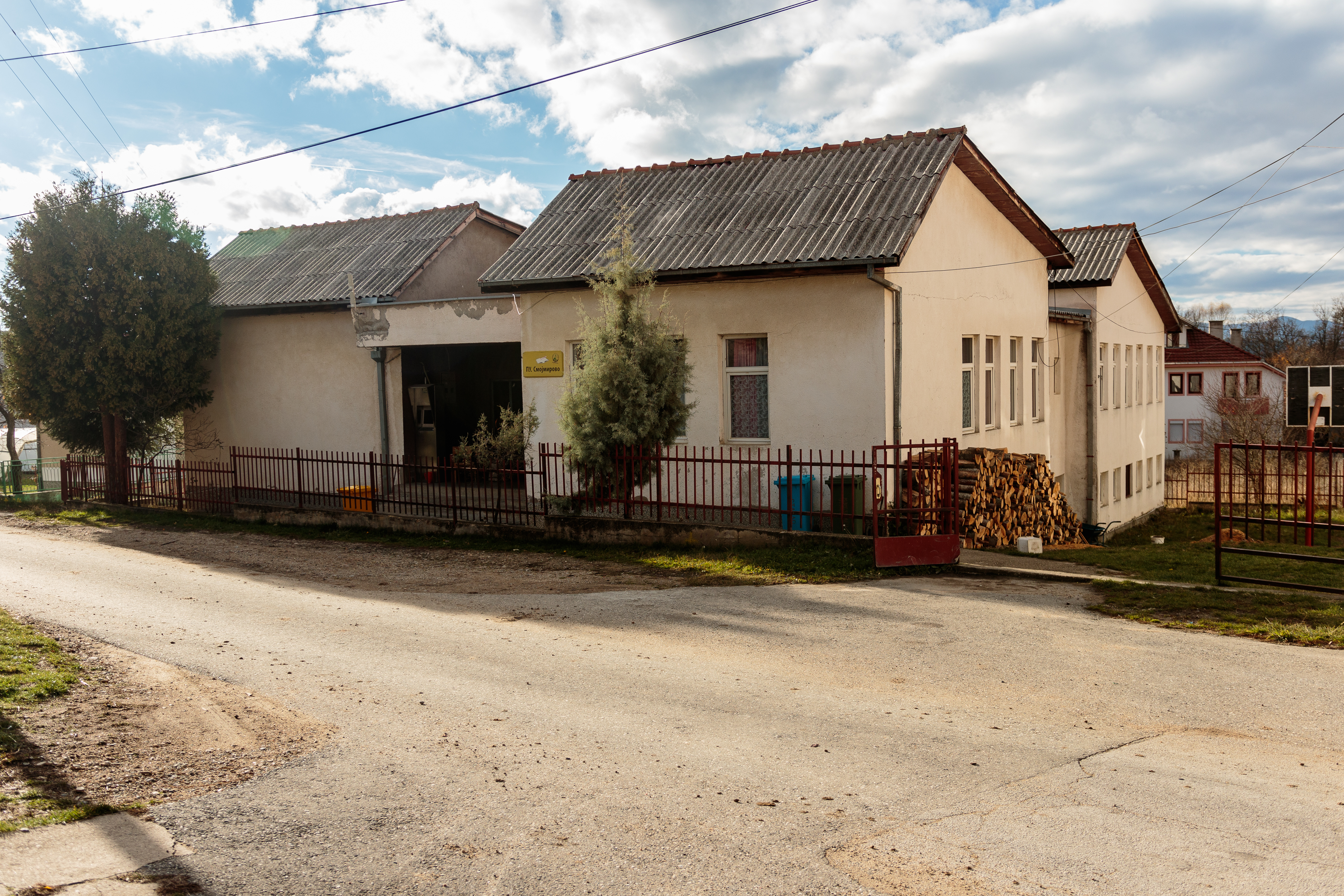 Primary school in Smojmirovo